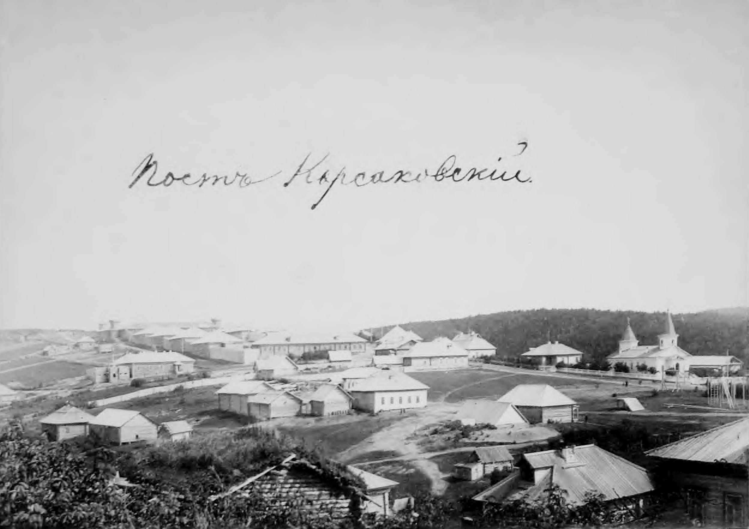 View of Korsakovsky. Katorga prison on the left side